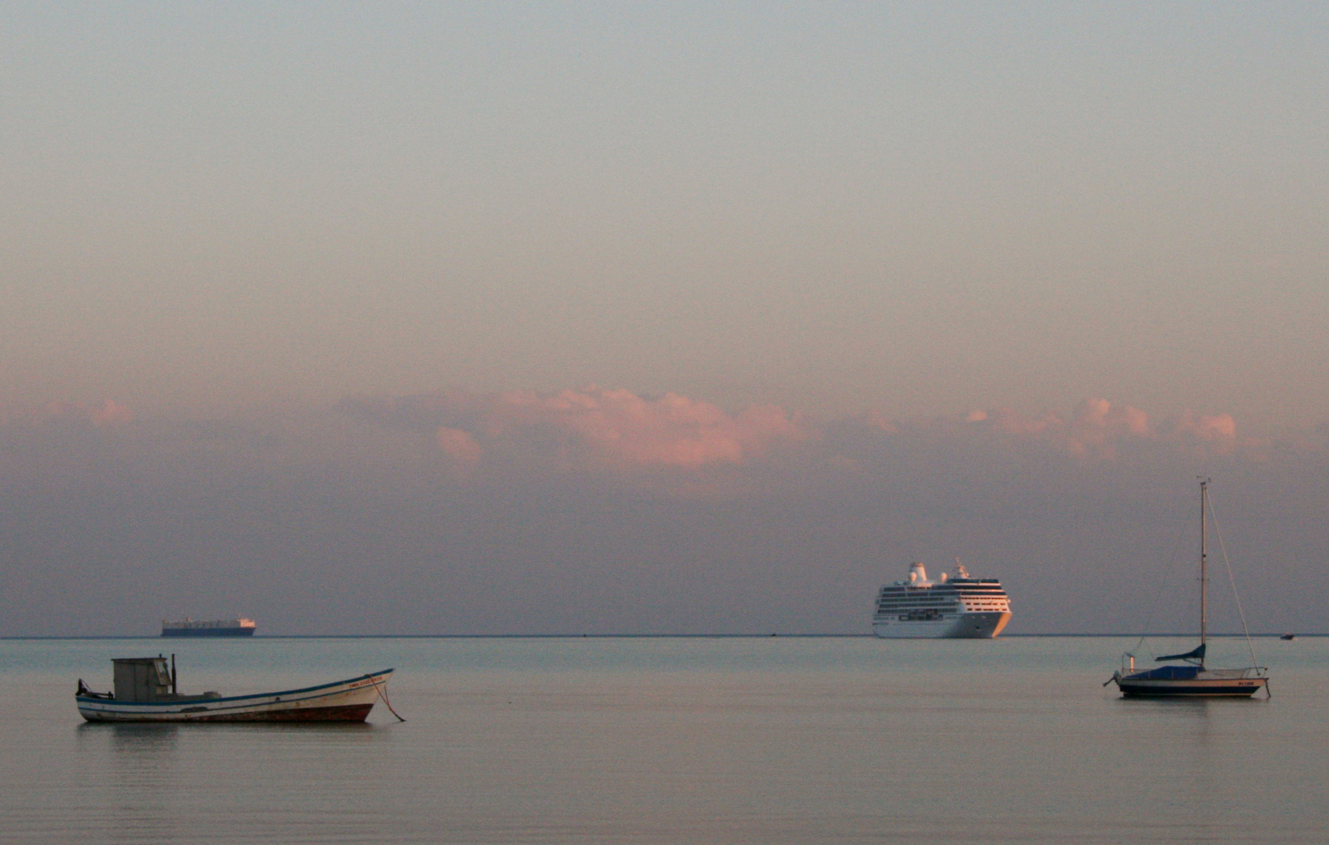 Azamara Journey approaching the Port of Koper at dawn